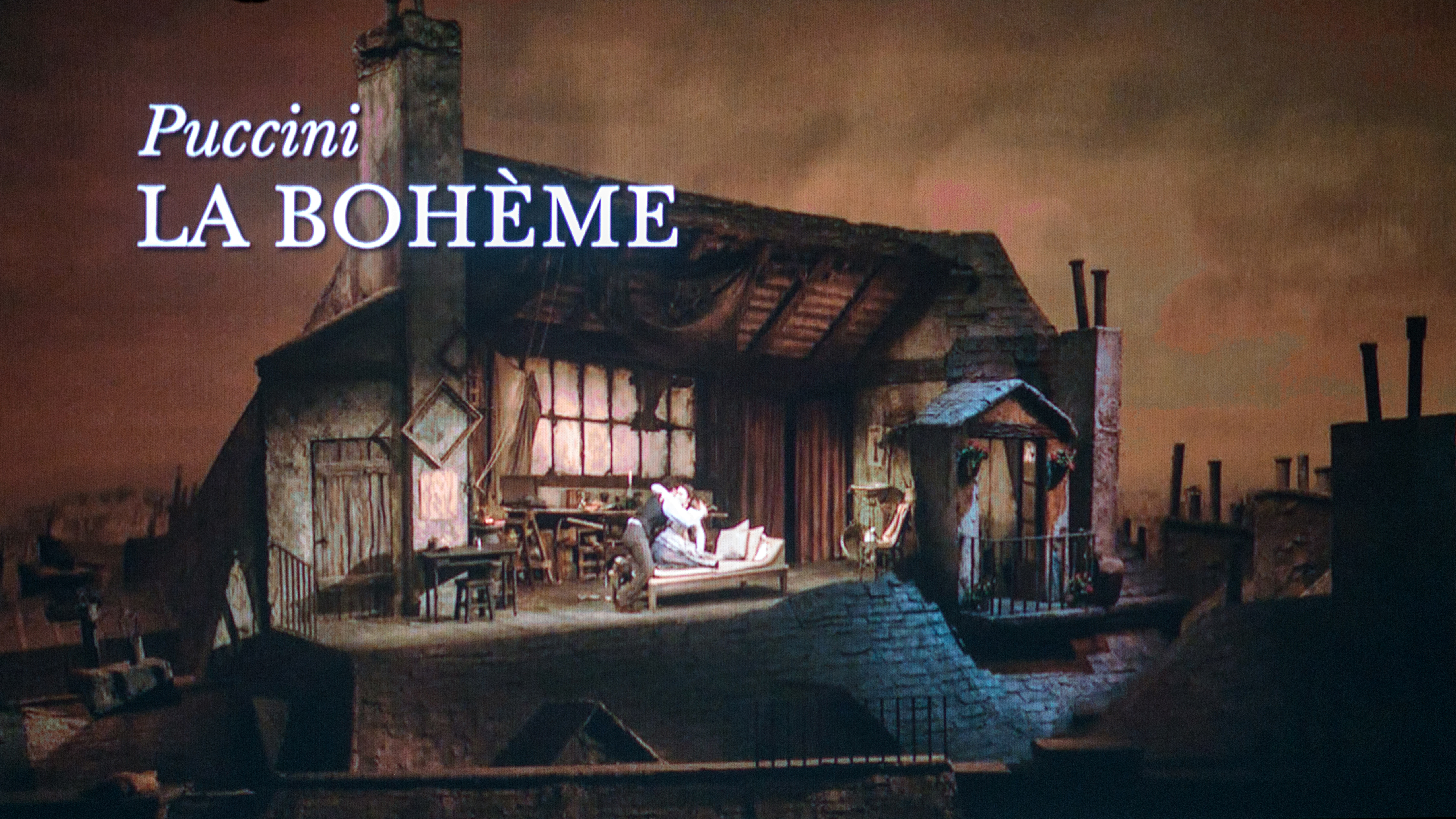 La Bohème from the Metropolitan Opera April 2014